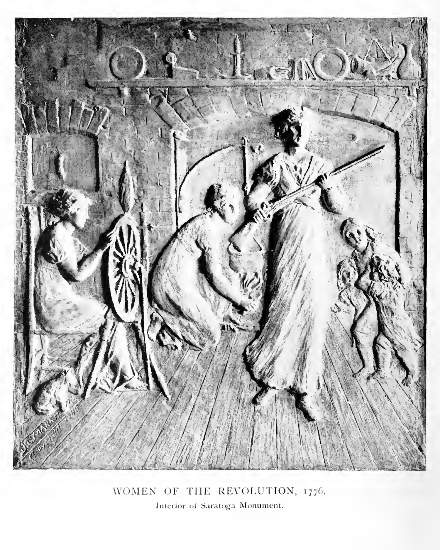 Plaque from the Saratoga Battle Monument illustrating the roles of women in the American Revolution, by John C. Markham